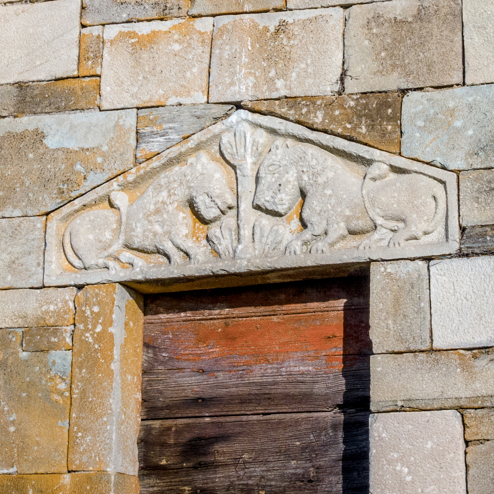 Carved lintel (two lions and a tree) over the southern entrance of the 12th-c. San Parteo Church in Lucciana (Corsica) near the antique town of Mariana.